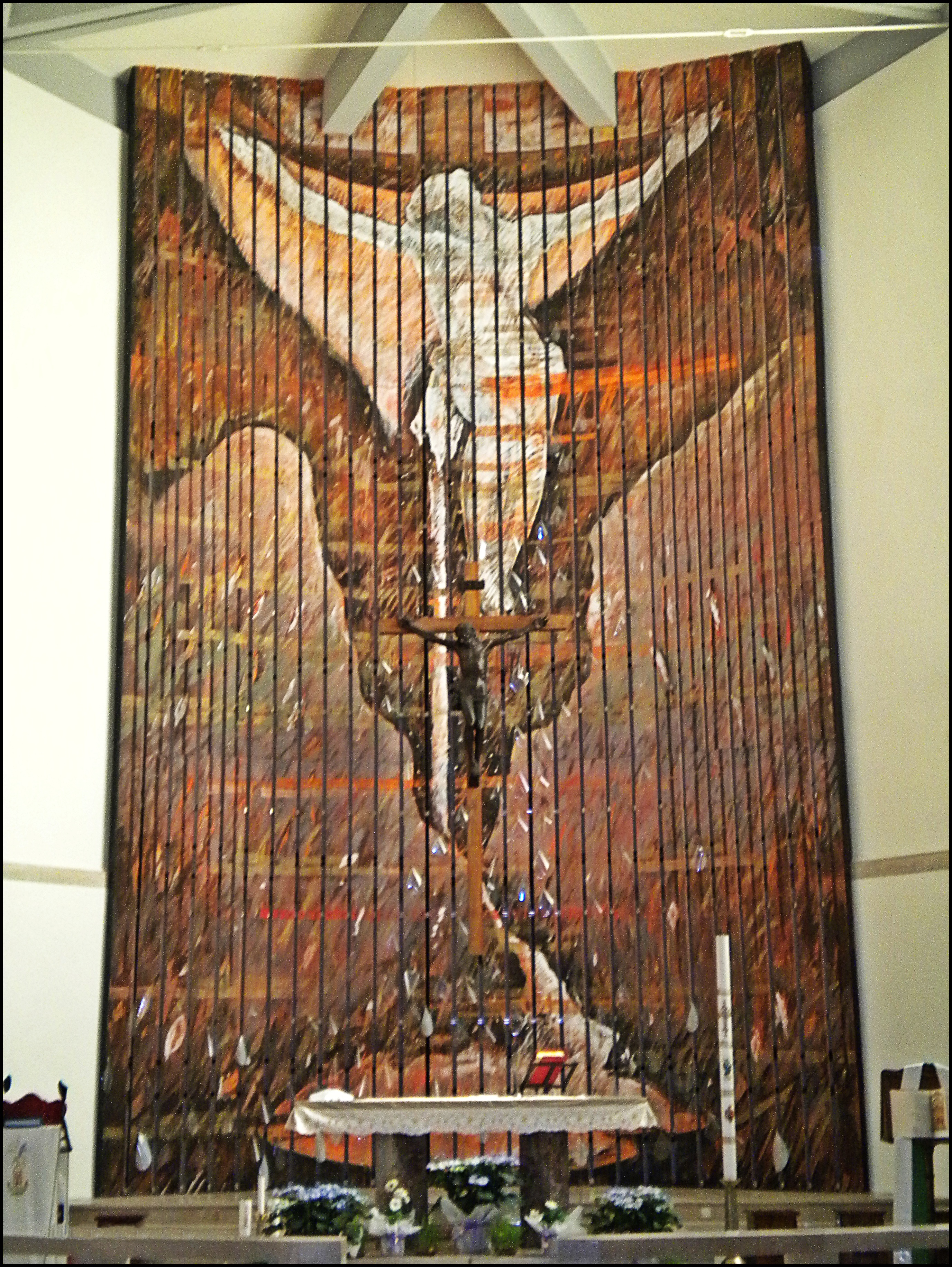 Interiors of the new church